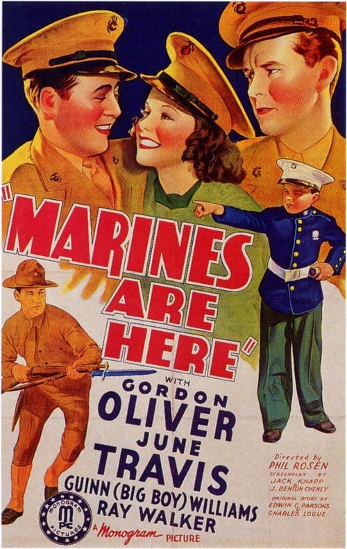 Poster for the 1939 film, The Marines are Here